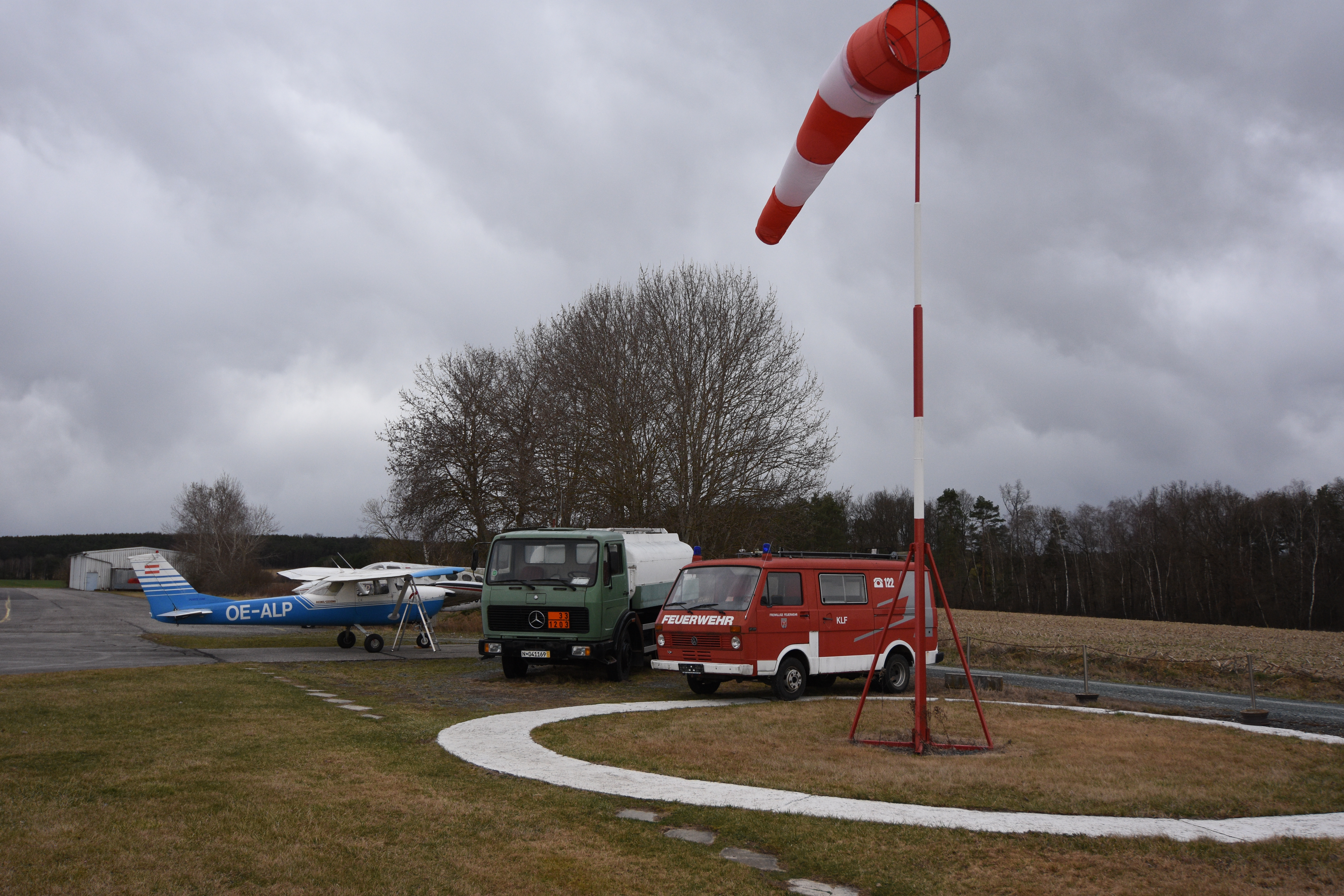 Airport Punitz